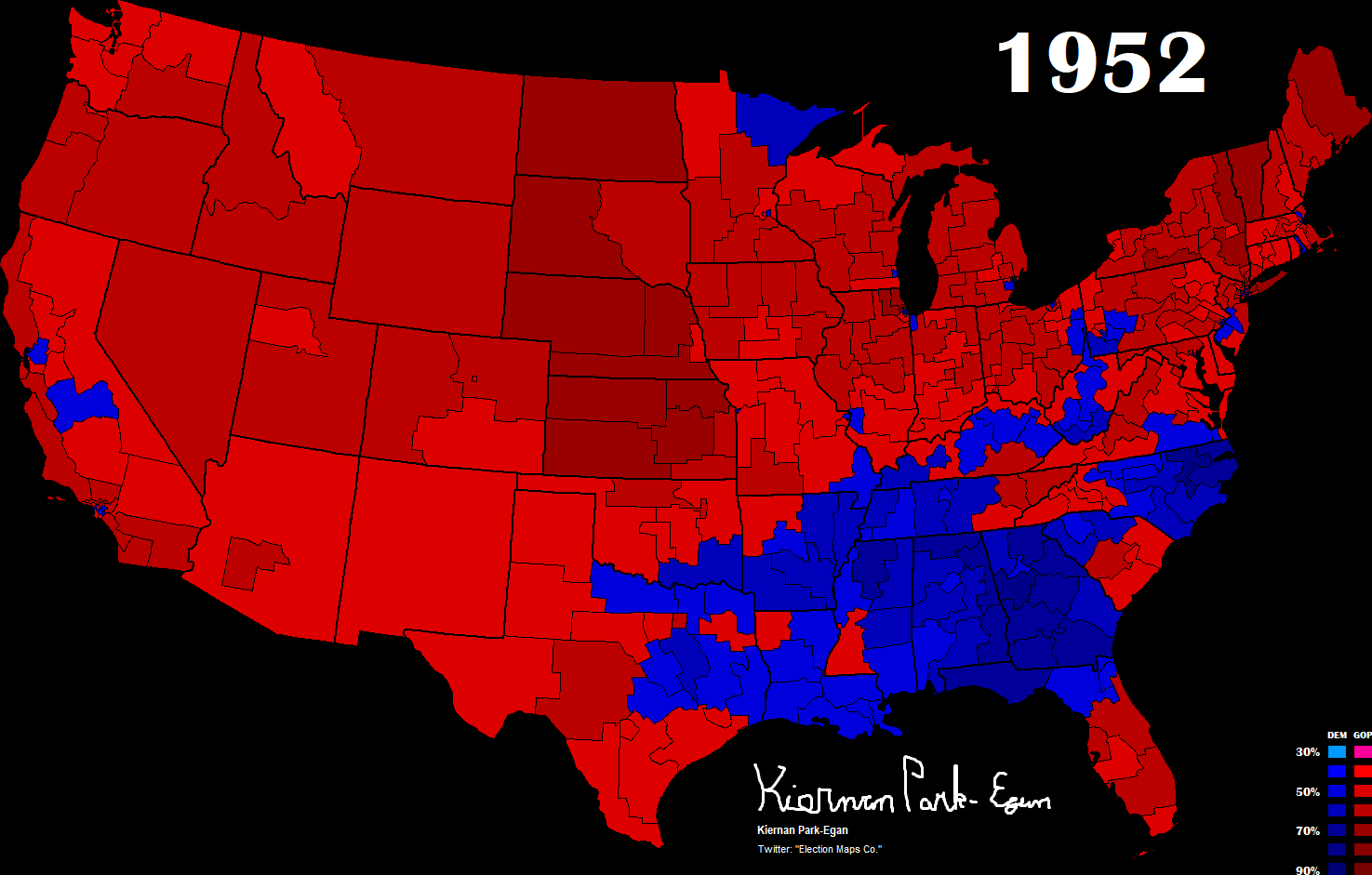 The 1952 U.S. Presidential Election Results by Congressional District.